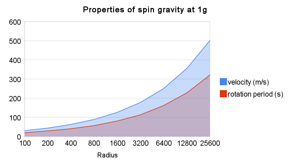 Graphic showing period and speed of rotation of different centrifuges